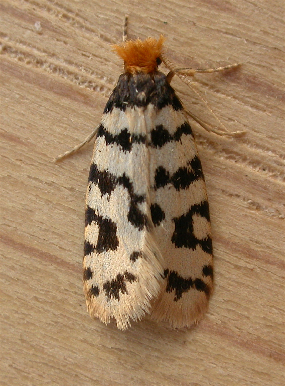 Undescribed Iphierga sp., to MV light, Aranda, ACT, 20/21 November 2008